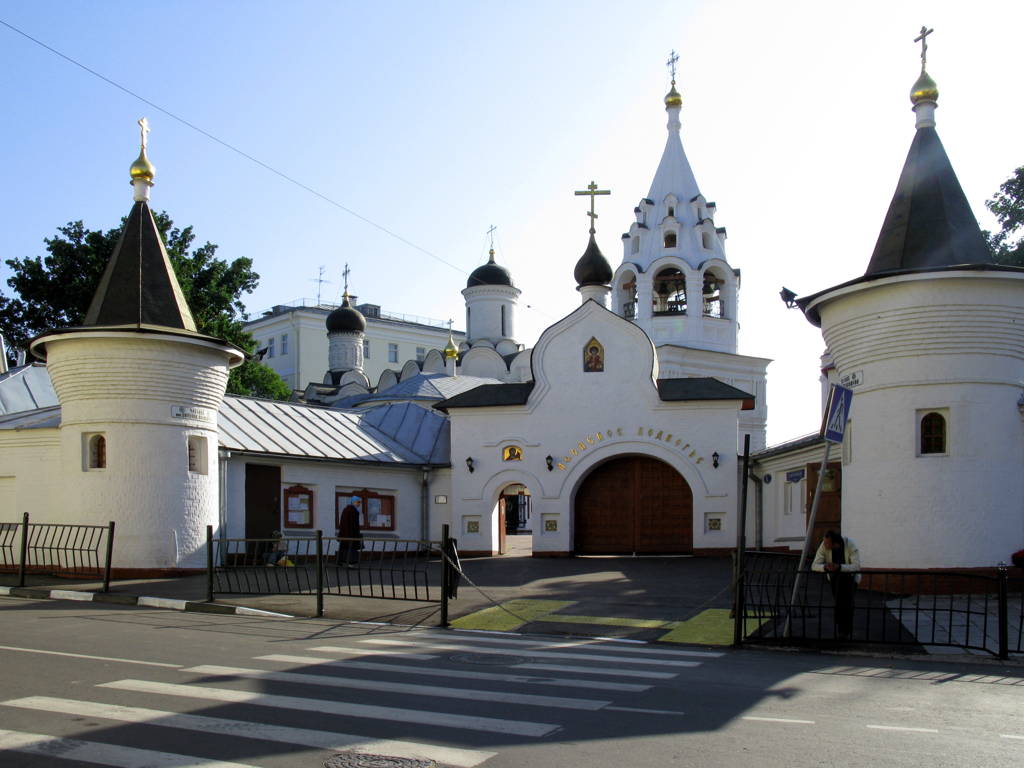 Church of Saint Nikita in Shvivaya Gorka